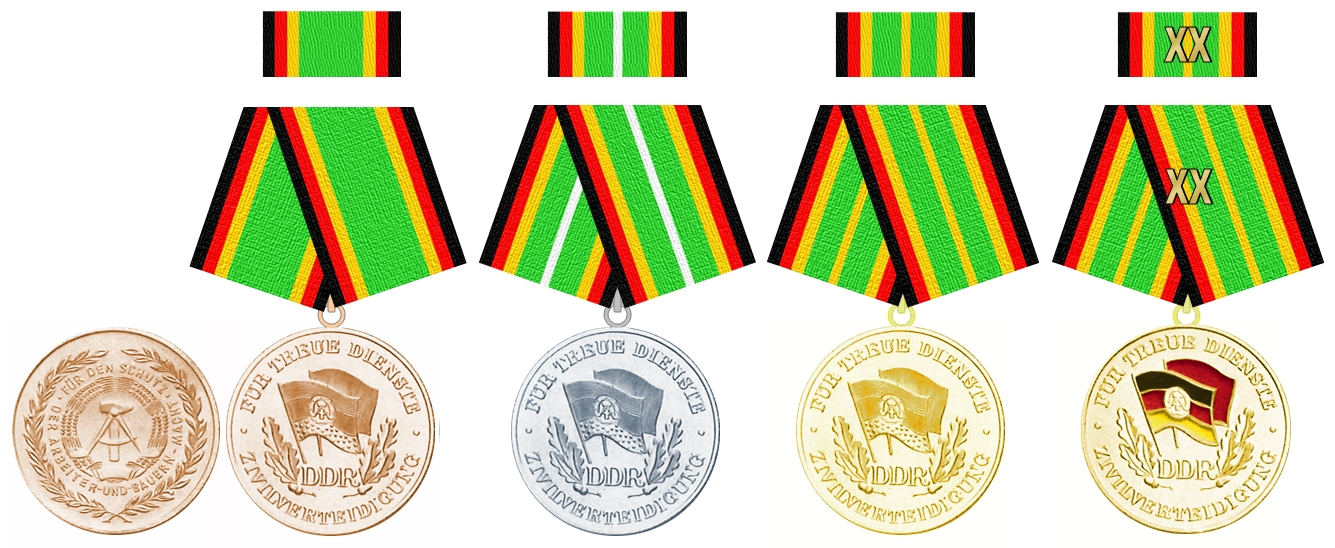 "Medal for Faithful Service in the GDR Civil defense" until 1990 - bronze, silver, gold and XX jears of service.